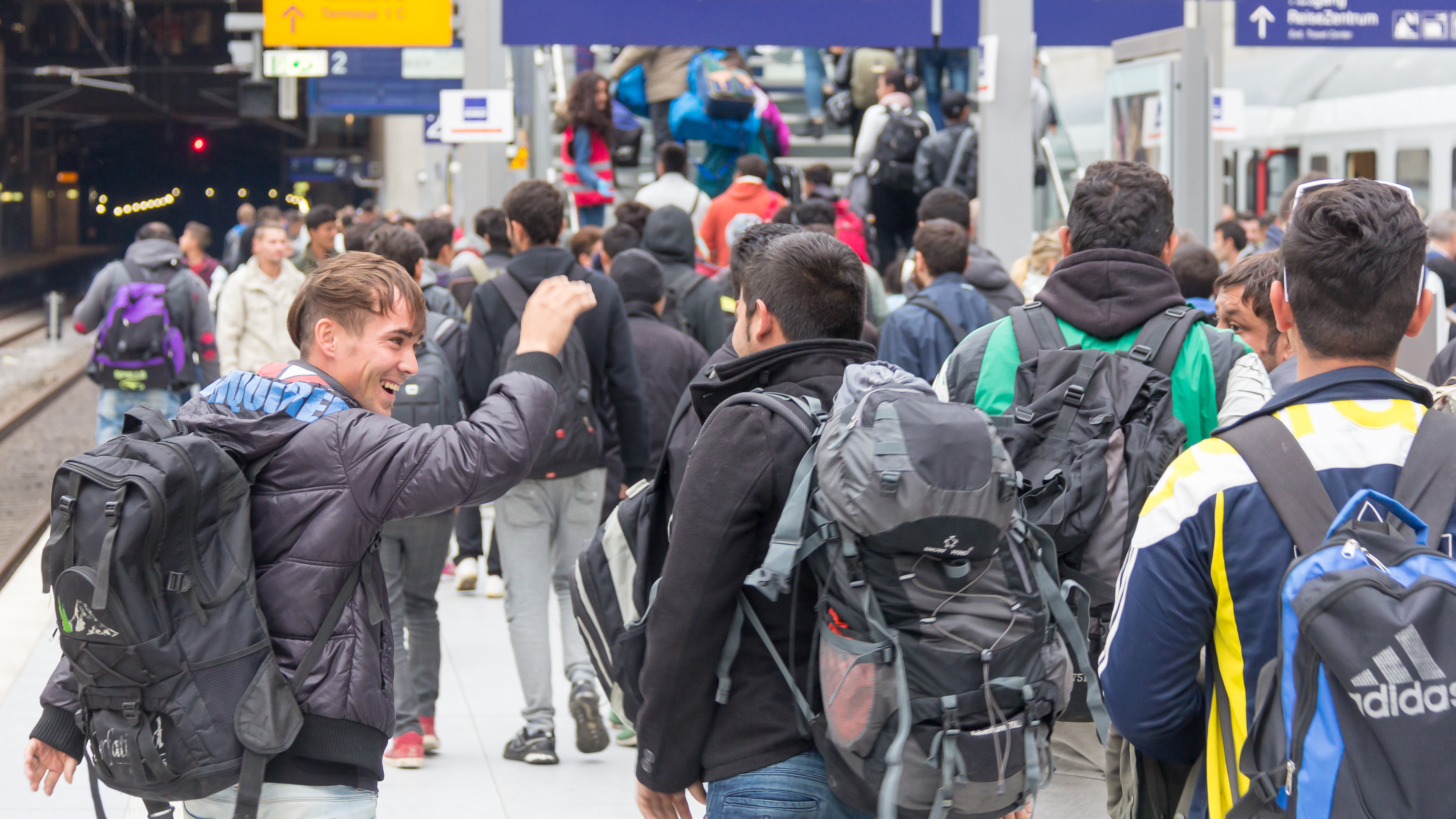 Arrival of refugees with a special train by Deutsche Bahn from the Austrian/German border at the station of Cologe/Bonn airport. In big tents on the ground the refugees can rest and eat, get new clothes and they can charge their smartphones. Medical assistance is available too. After ~ 2 hours the refugess will be transported by busses to buildings of the country of North Rhine-Westphalia